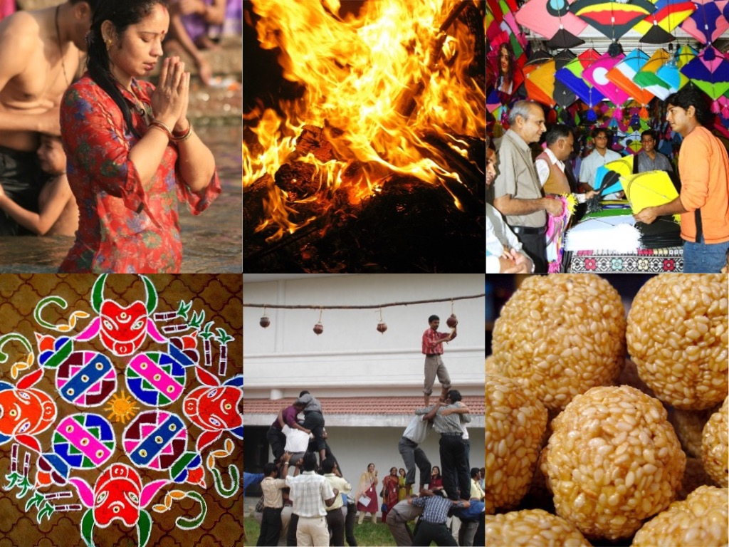 Makar Sankranti is a winter agriculture and sun related festival, observed by Hindus every January. The collage is a derivative work on the following images available on wikimedia commons: A bonfire celebrating Lohri Makar Sankranti eve Hindu and Sikh festivals.jpg Til Ke Laddu, a traditional dessert snack food for winter solar festival of Makar Sankranti.jpg Pot breaking celebrations with human pyramid Pongal Hindu festival.jpg 1 Hindu woman praying in river Ganges, Varanasi Puja.jpg COW PONGAL FESTIVAL KOLAM.jpg Kite shop in Lucknow.jpg